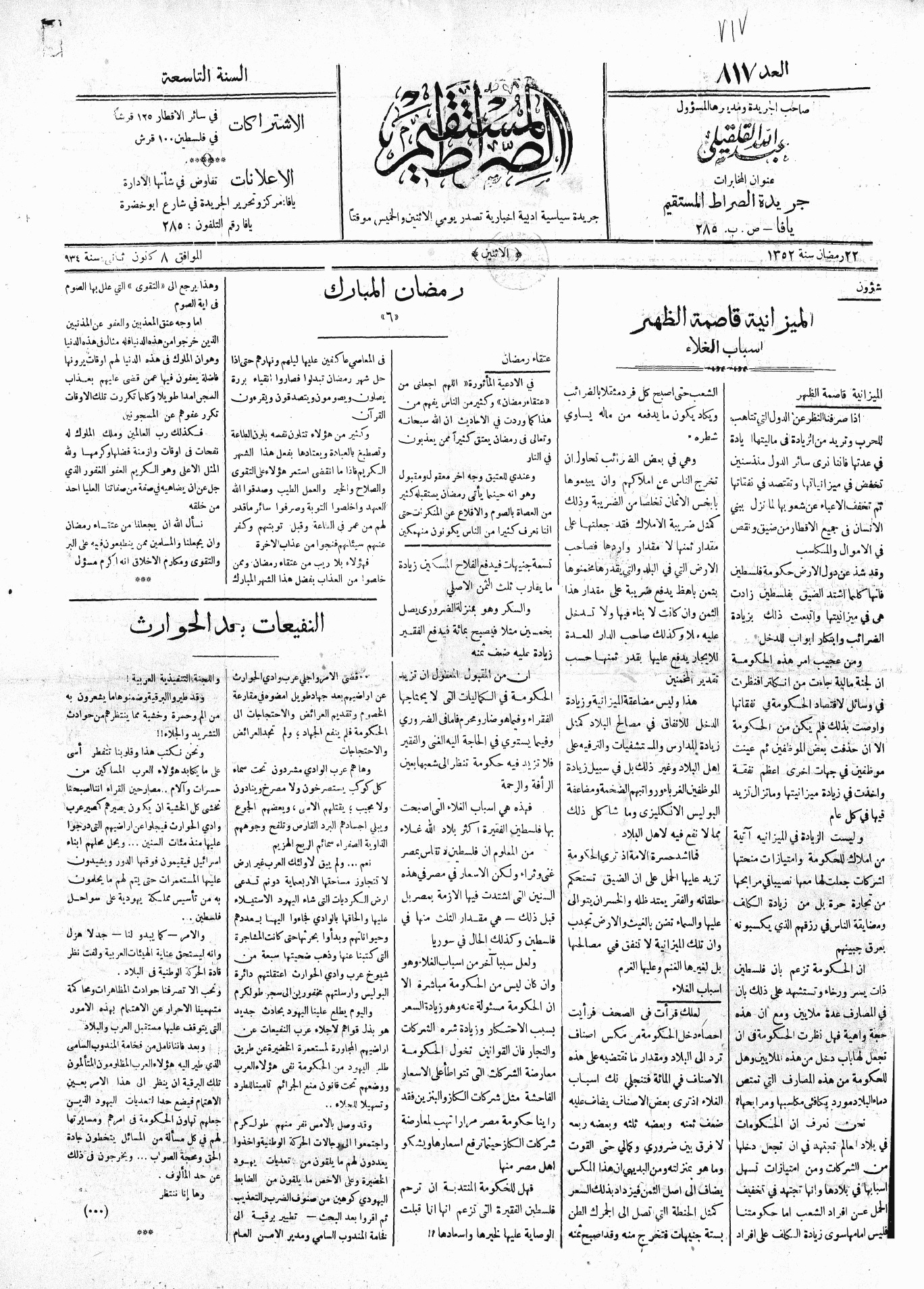 Palestinian newspaper